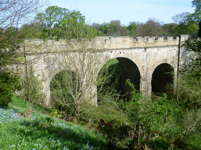 Oxenfoord Viaduct